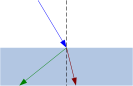 Refraction in a left-handed material.